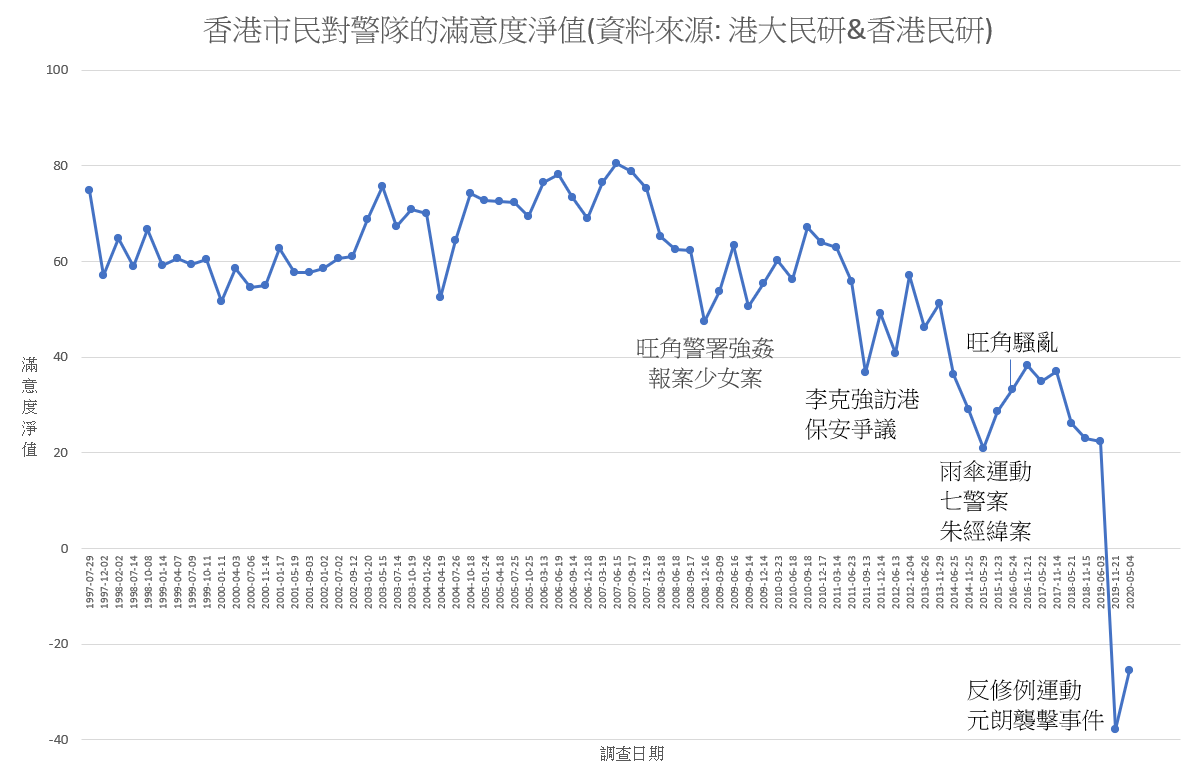 Satisfaction with the performance of the Hong Kong Police Force (net value)中文（香港）: 香港市民對警隊的滿意度淨值(資料來源: 港大民研&香港民研)